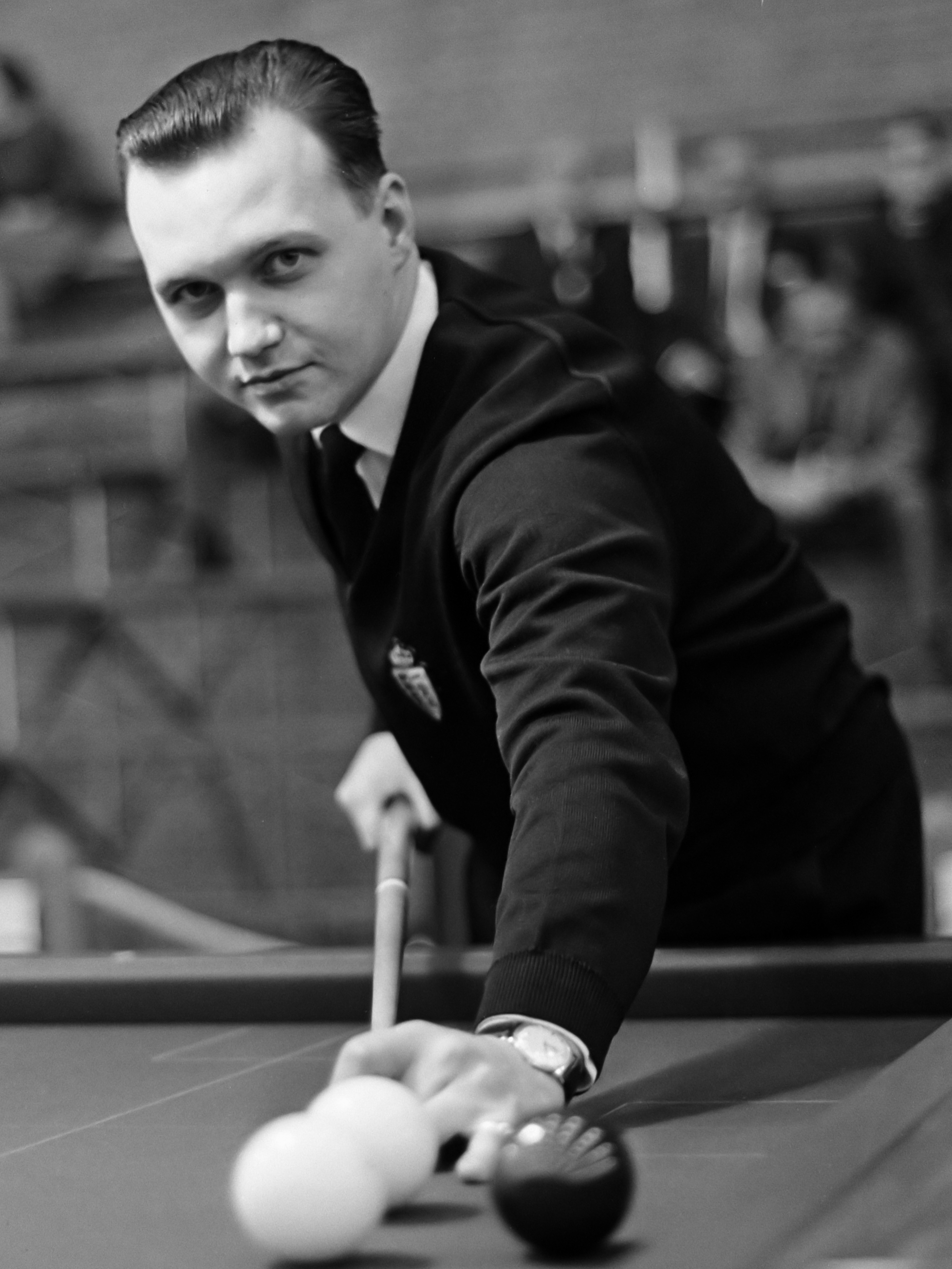 Europese Kampioenschappen biljarten te Amersfoort: Léo Corin 8 december 1966